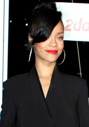 Rihanna at the Battleship Australian Premiere 2012.